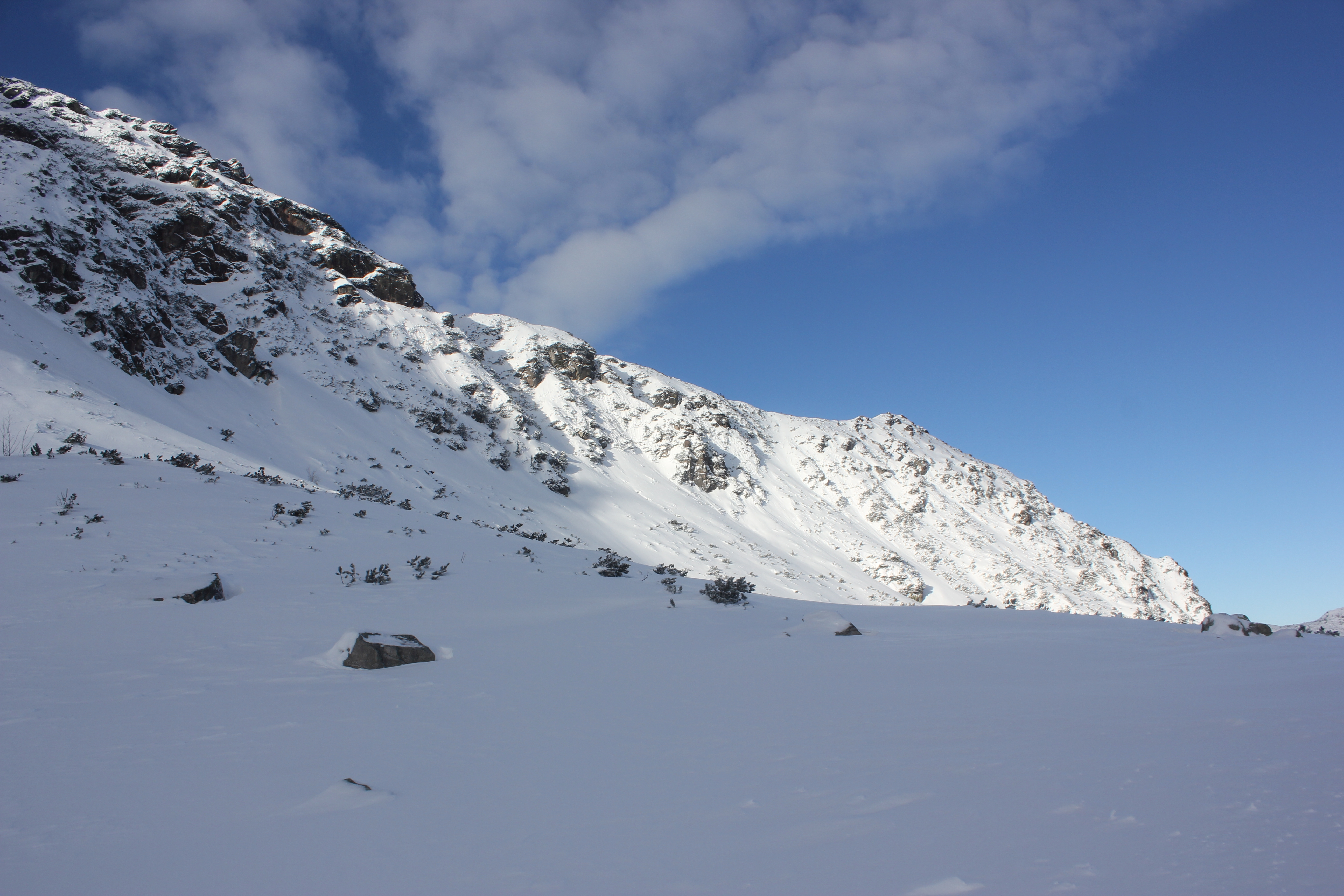 Mount Mały Kościelec